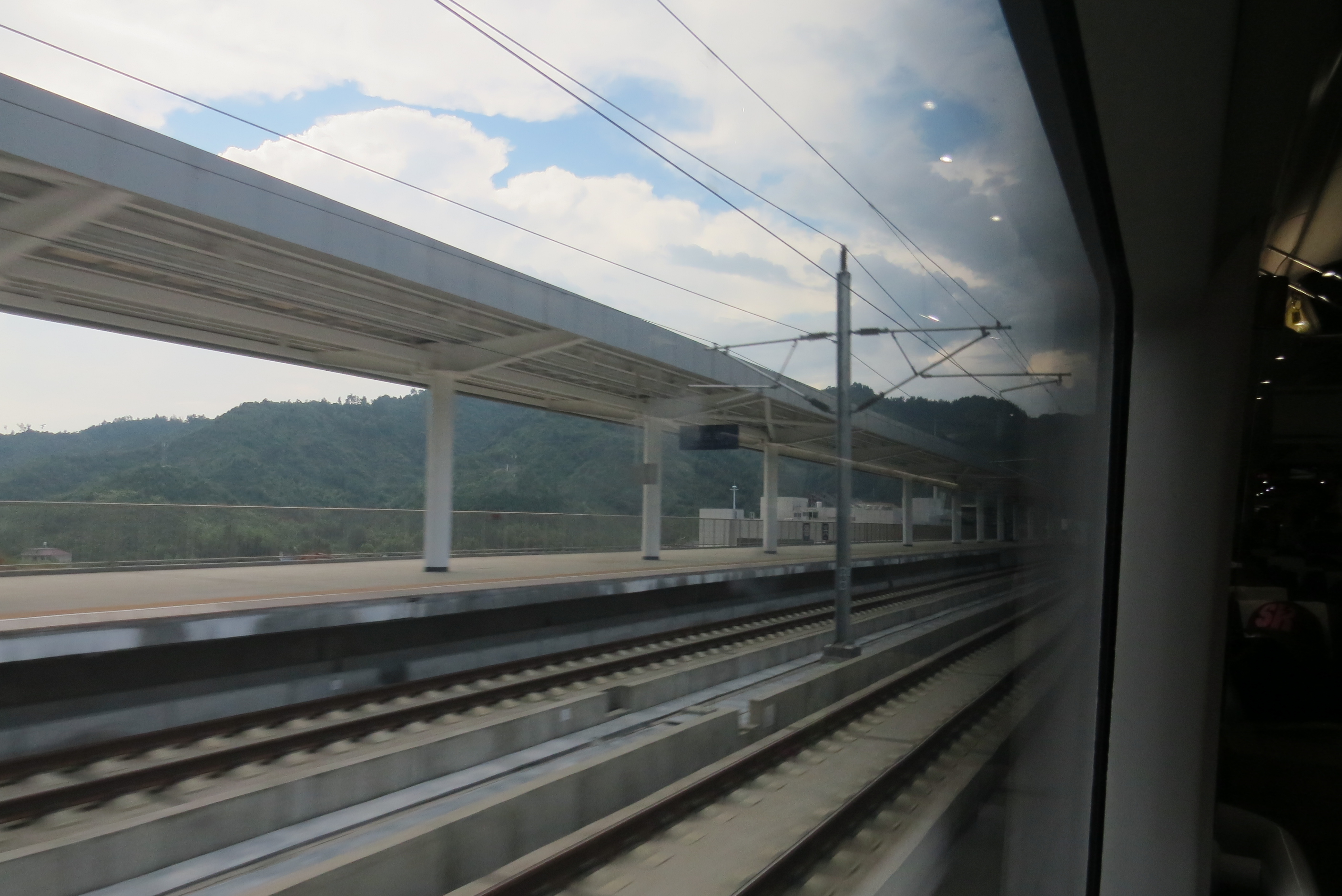 This station has access to Mount Sanqing.